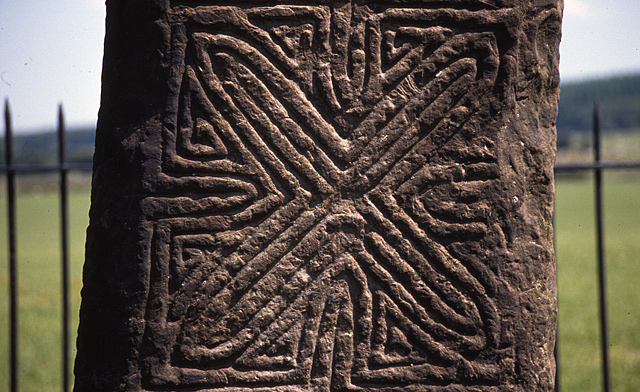 Maen Achwyfan - Whitford (3) Detail from the base of the cross.